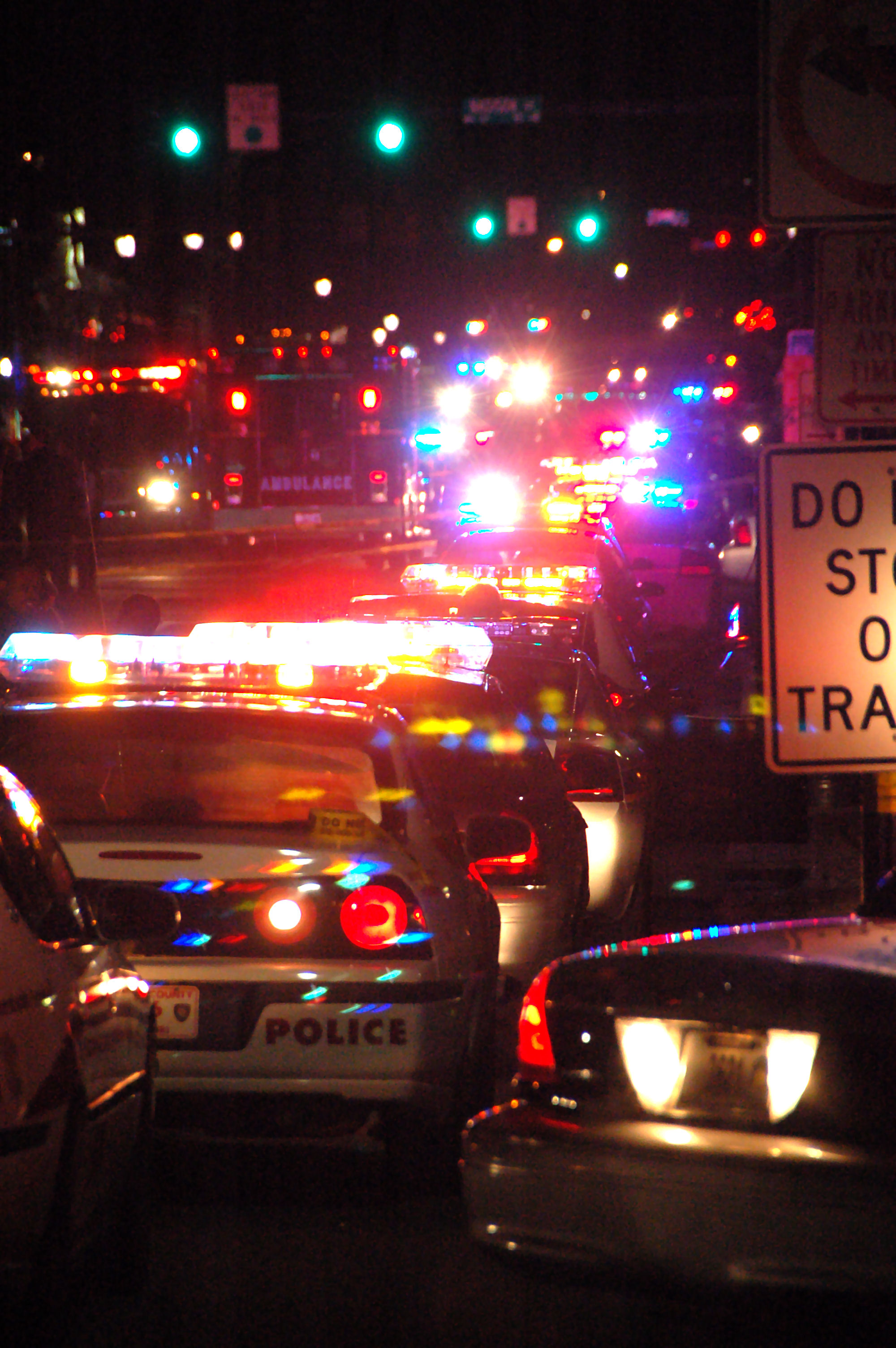 Police cars responding to the Kirkwood City Council shooting.